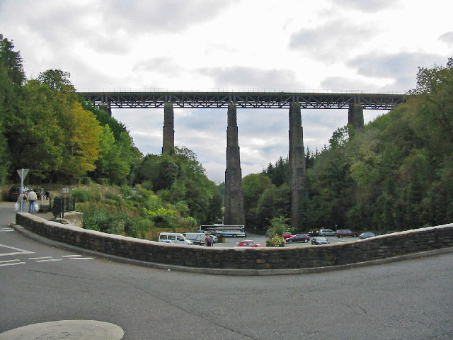 St. Pinnock Viaduct, Cornwall. Designed by Isambard K. Brunel, and represents the culmination of the different forms of Brunels timber viaducts for the Cornwall railway. Timber was replaced by steel beams in 1882.